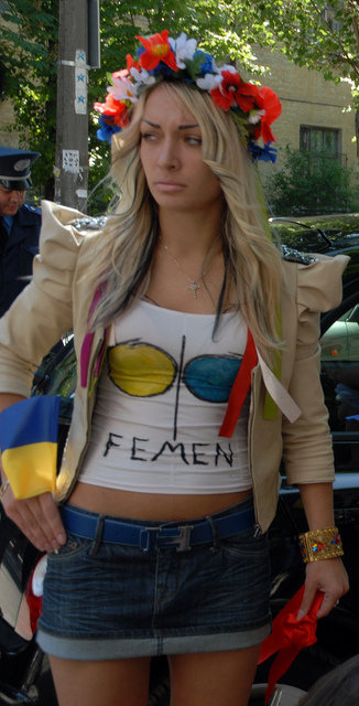 Inna Shevchenko